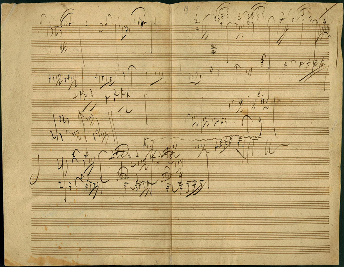 Piano Sonata in A Major, op. 101, Allegro: manuscript sketch in Beethoven's handwriting.